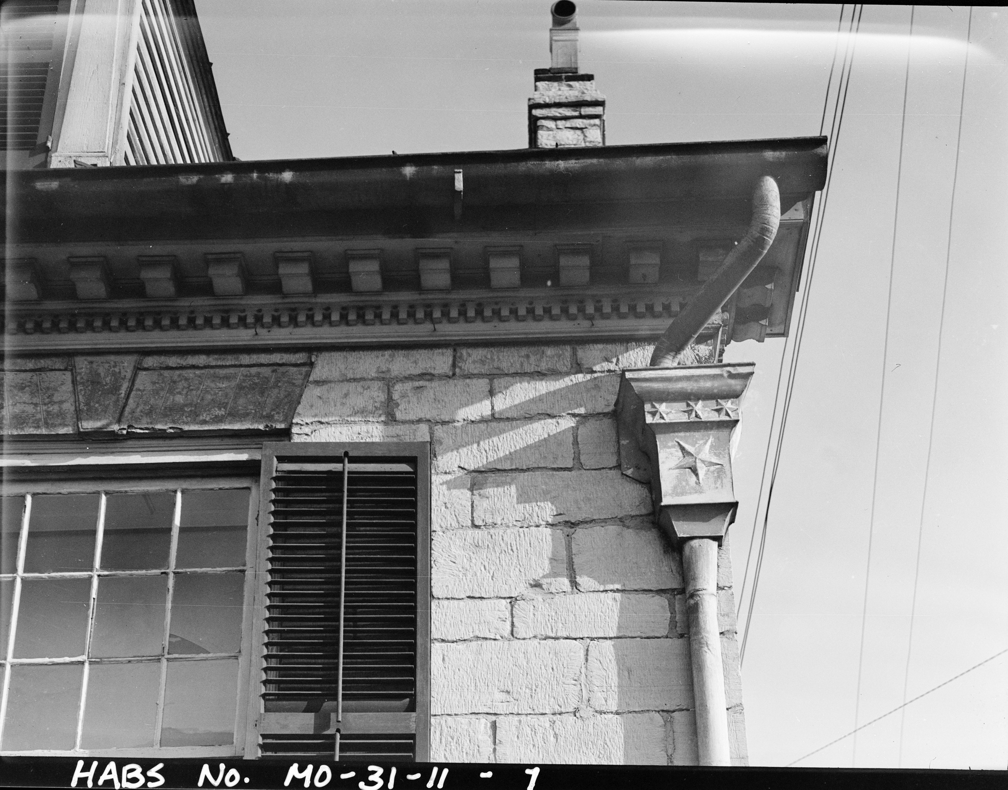 Photograph showing details of the cornice with its downspout and dentils on the Felix Valleé House in Ste. Geneviève, Missouri. The house was built by Samuel Phillipson, an early settler. In 1823 it was sold to Felix Vallé and is now maintained as a museum.